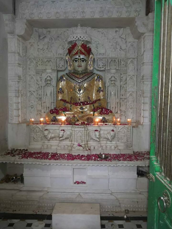 Naynabhiram Idol of Shri Adeshwar Ji (Adinath Bhagwan)